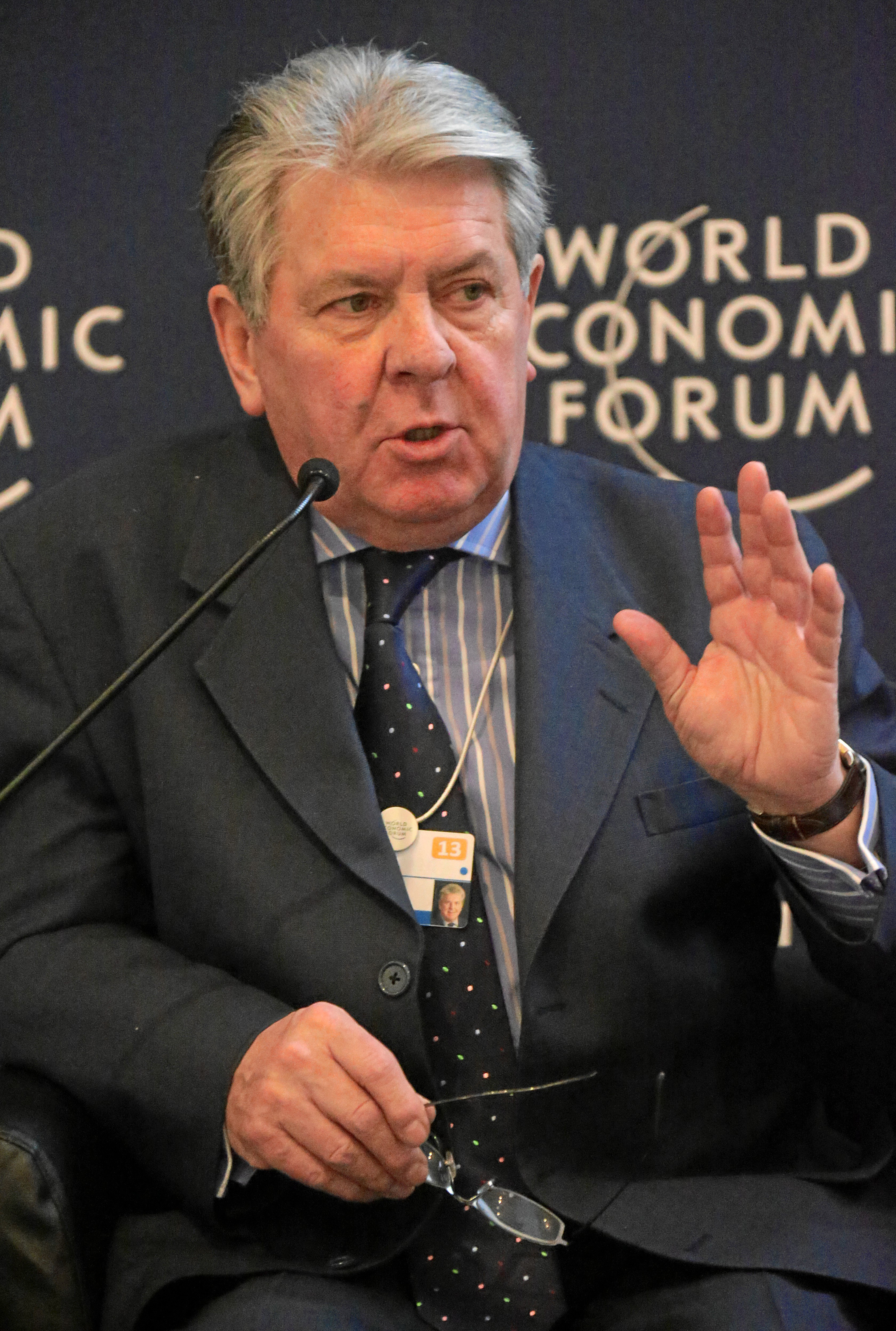 DAVOS/SWITZERLAND, 26JAN13 - Sir David Wright, Vice-Chairman, Barclays, United Kingdom; Global Agenda Council on Japan gestures during the Session 'The Japan Growth Context' at the Annual Meeting 2013 of the World Economic Forum in Davos, Switzerland, January 26, 2013.. . Copyright by World Economic Forum. . Remy Steinegger